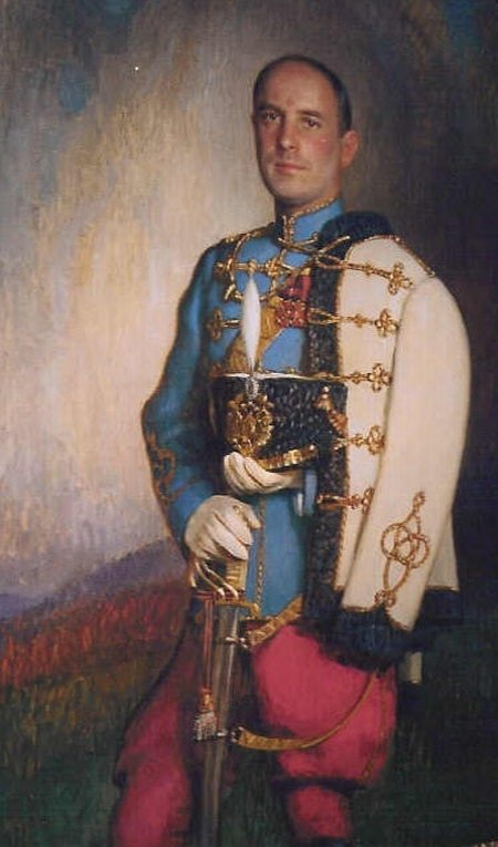 Portrait of Baron Seigfried Nikolai von Stackelberg of Erchless Castle dressed in his Russian Hussars uniform.